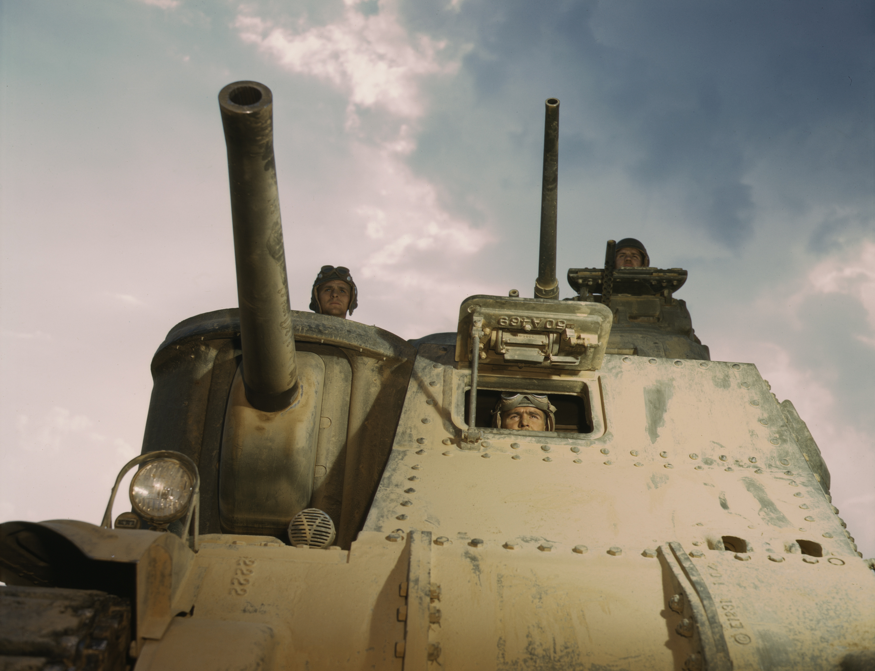 M-3 tank and crews, Ft. Knox, Ky.